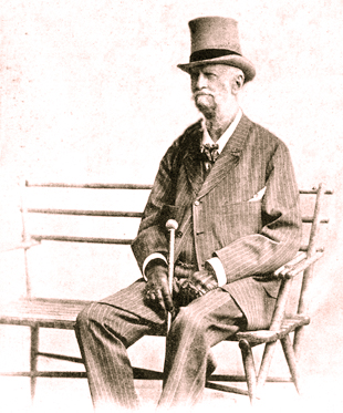 Baron Frigyes Podmaniczky (1824–1907), Hungarian politician and writer.